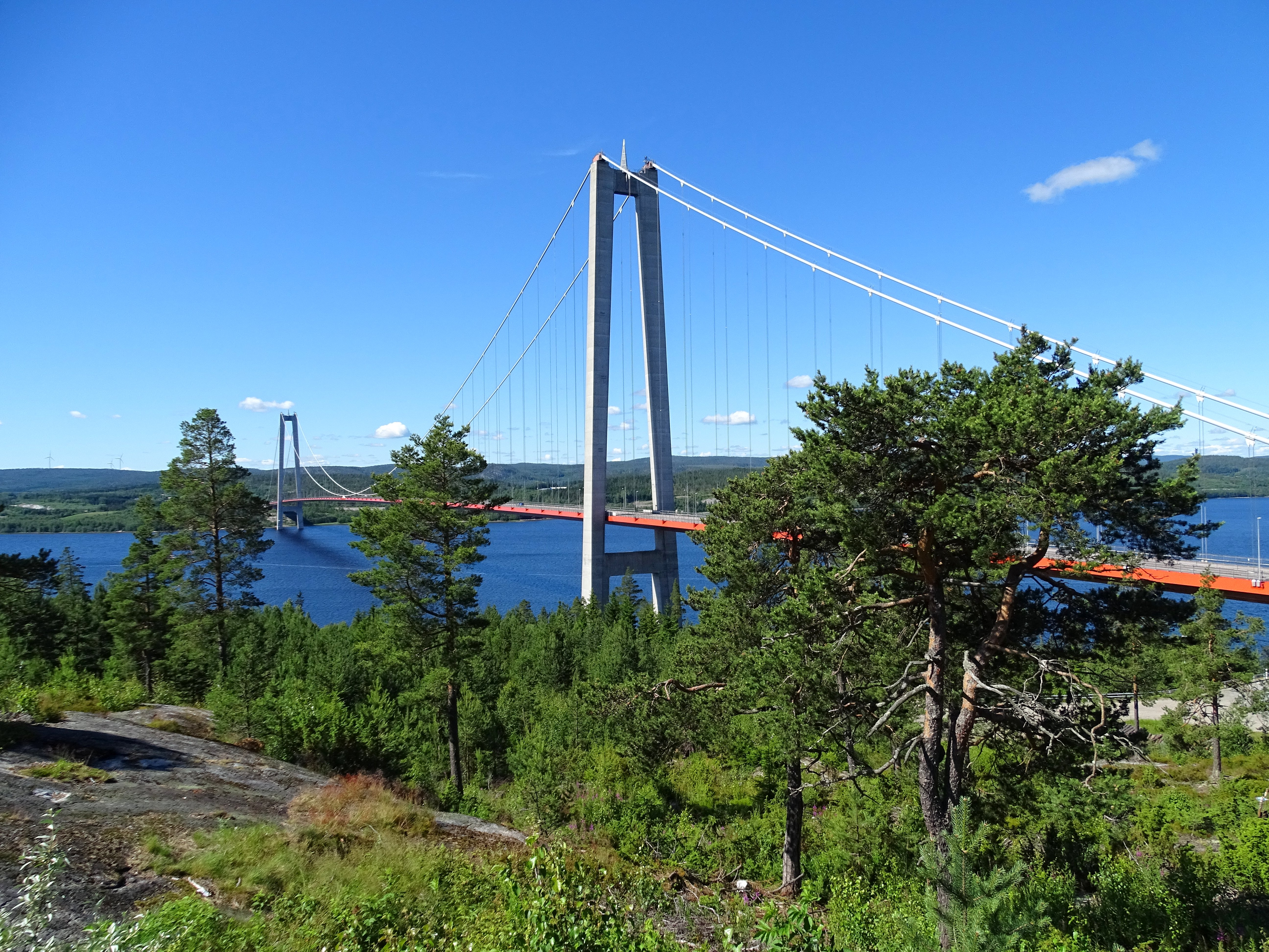 The Högakustenbron / High Coast Bridge north of Härnösand in Västernorrland, Sweden